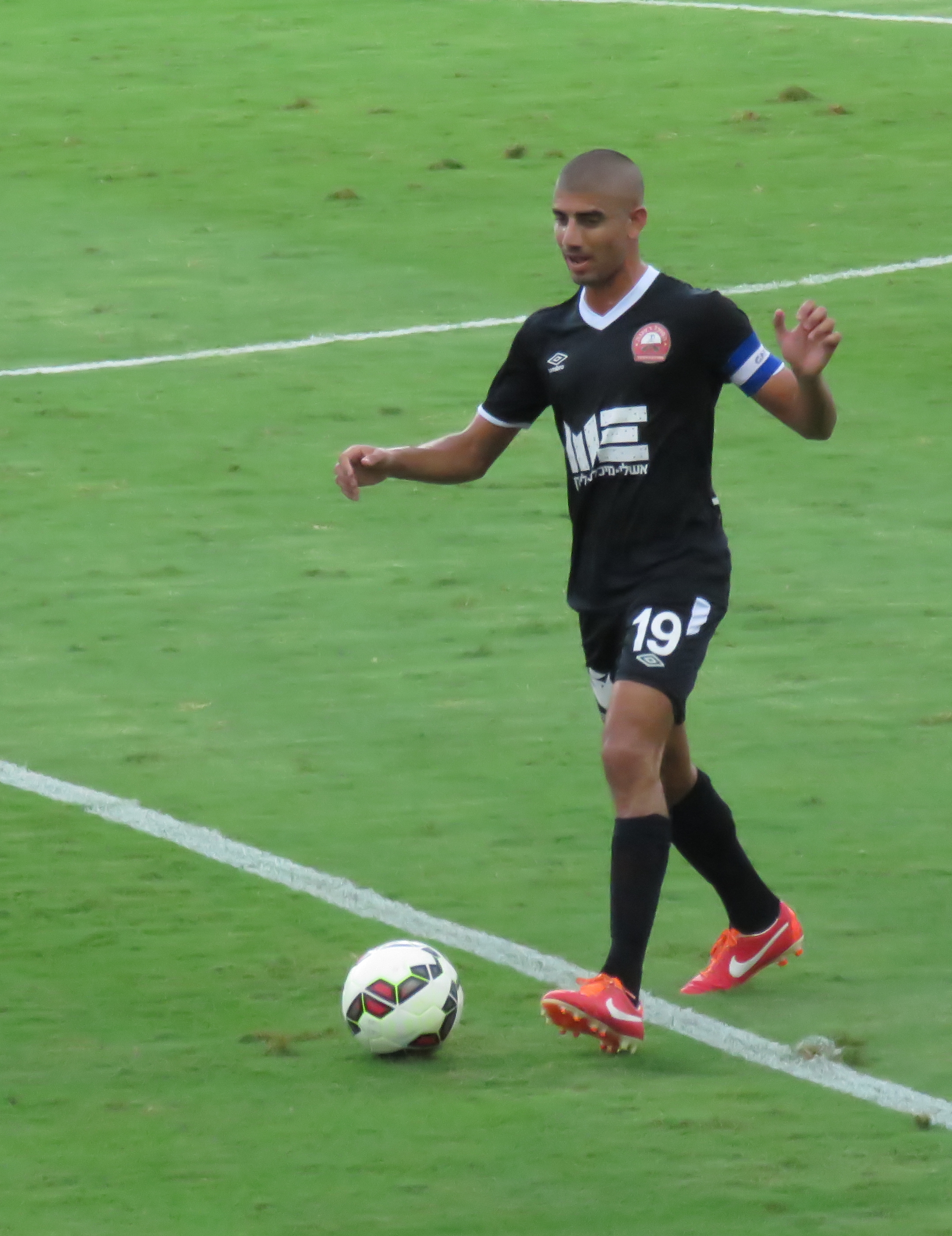 Hapoel Ra'anana vs. Hapoel Be'er Sheva - September 12, 2015